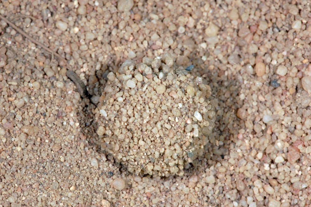 Euroleon nostras, Kelsterbach close to Frankfurt/Main, Germany